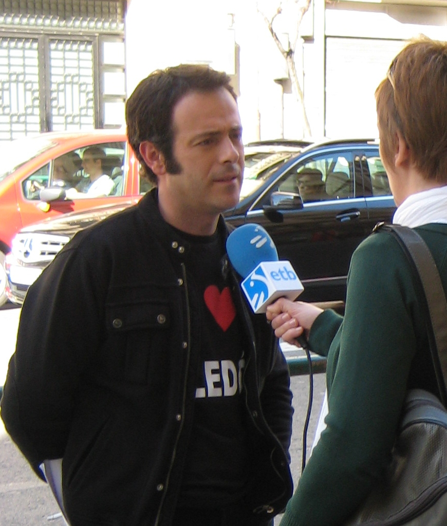 Iker Galartza interviewed.